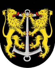 Coat of arms of Neuburg am Rhein